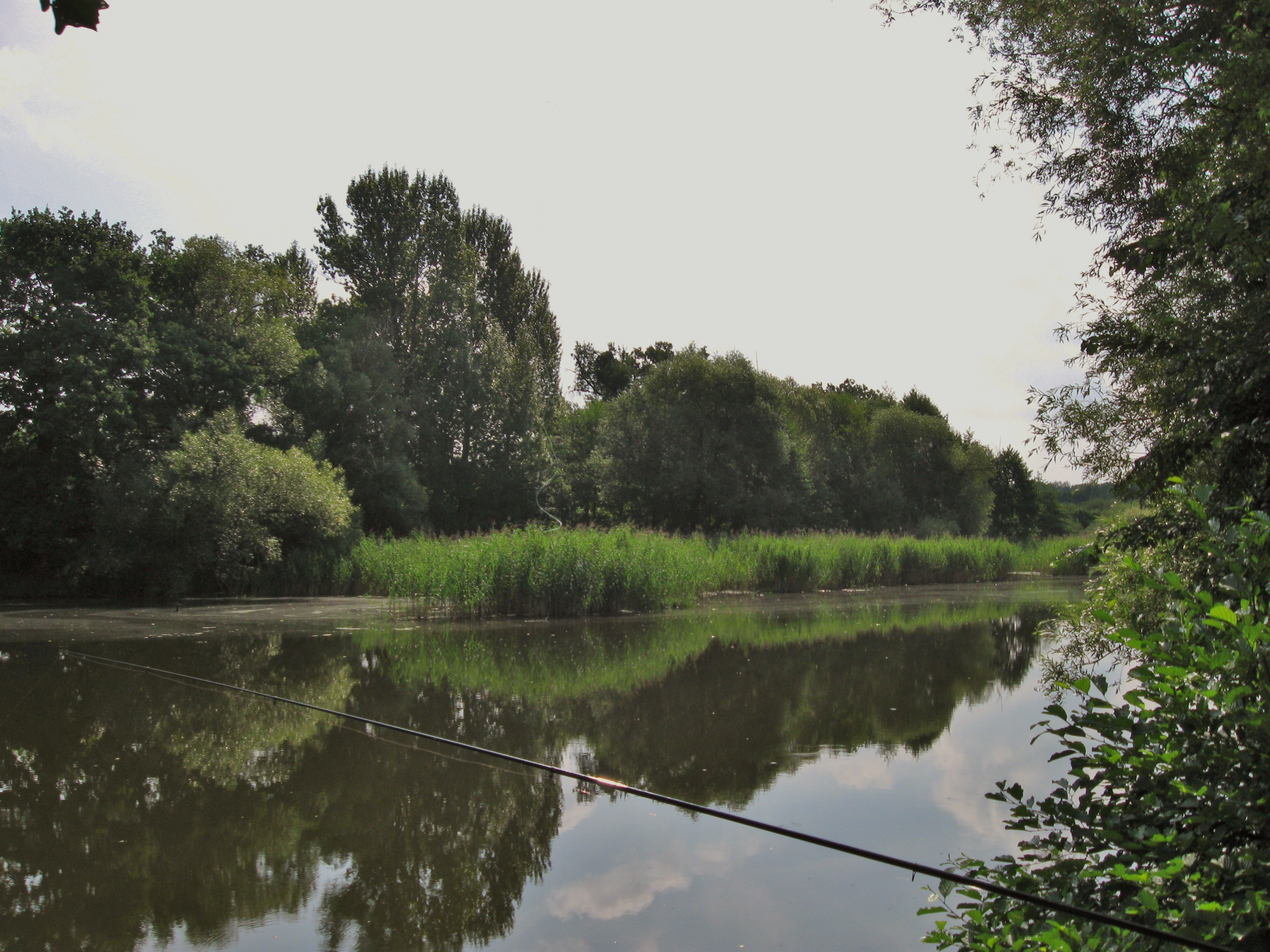 Natural monument Kolínské tůně